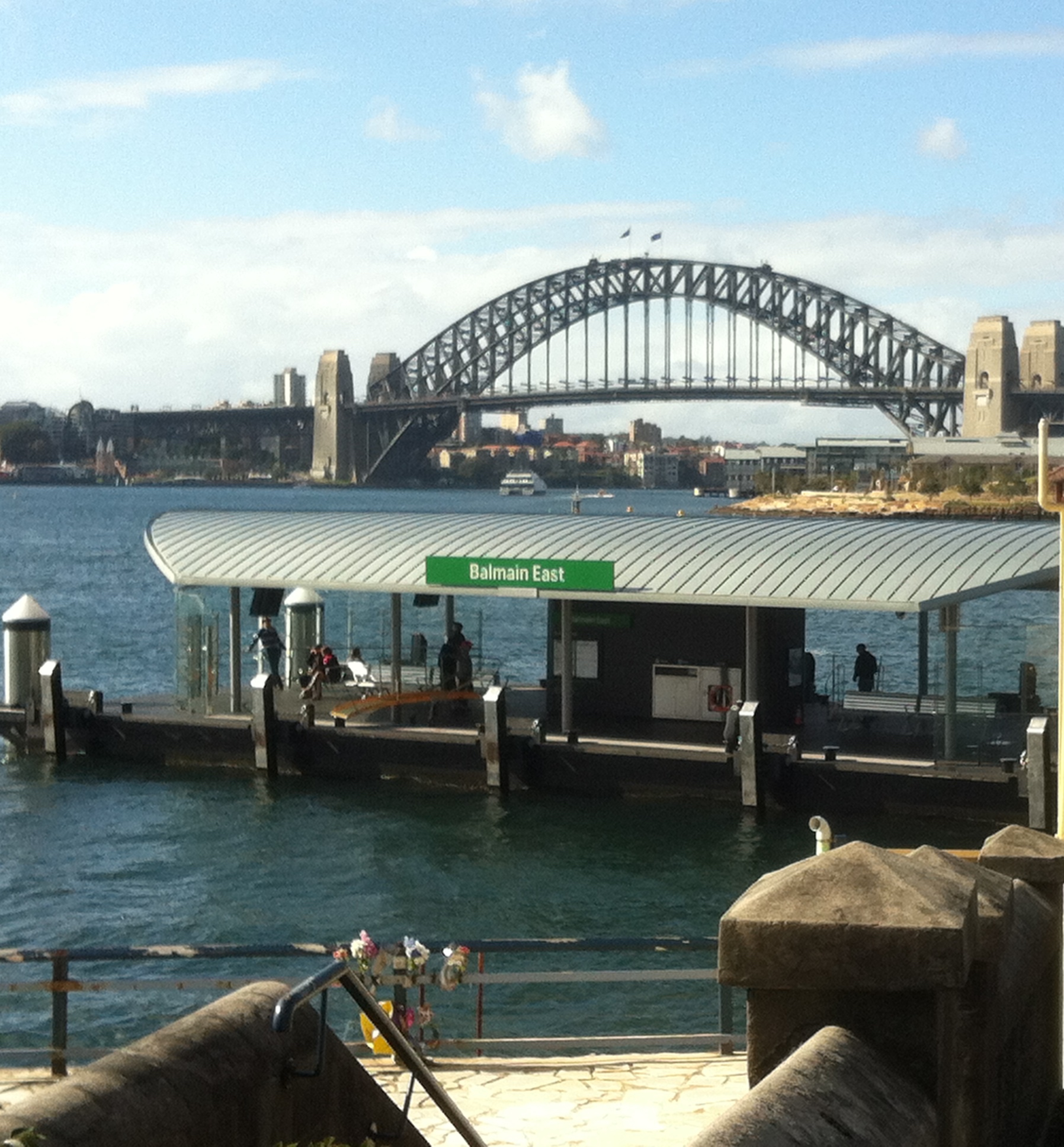 Upgraded wharf